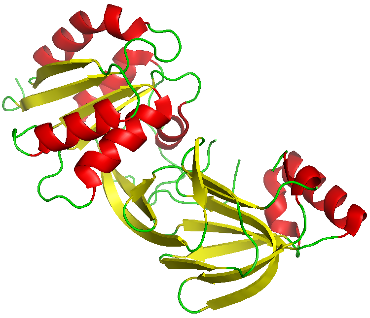 Ribbon structure of the soluble diacylglycerol kinase DgkB (2QVL) from Staphylococcus aureus rendered in PyMol - alpha helices in red, beta strands in yellow, coils in green.